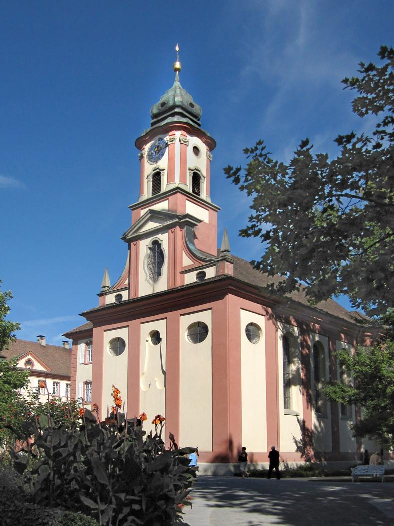 Island Mainau (Bodensee, Germany), Church St. Mary, photo 2010